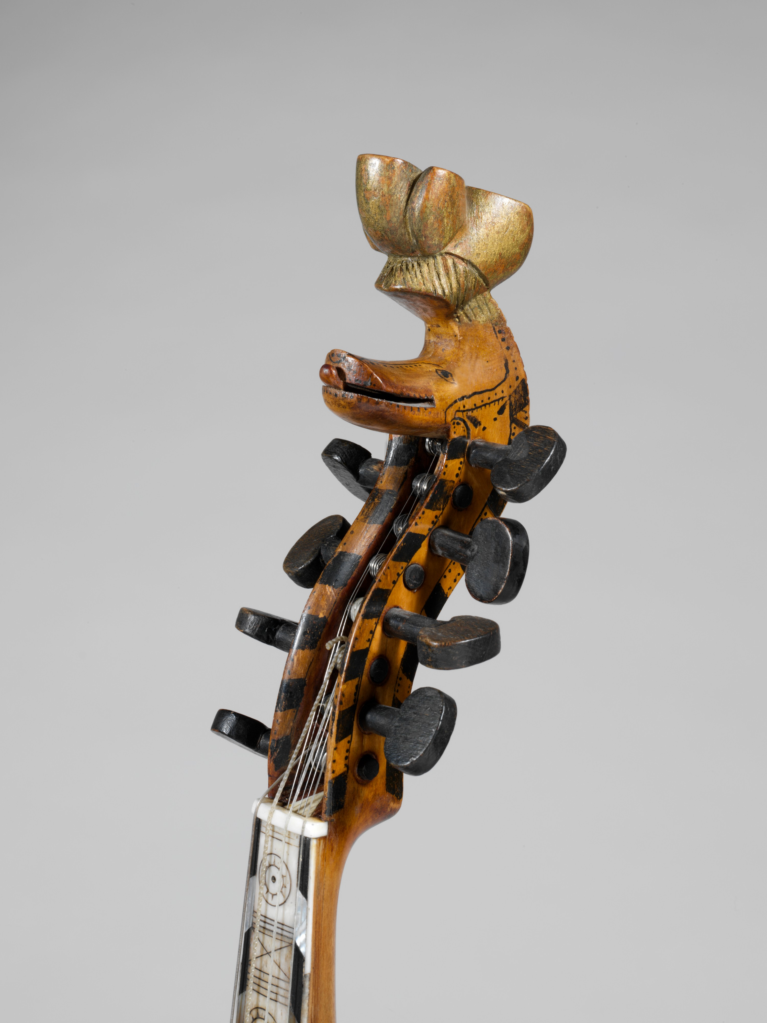 Norwegian; Hardanger Fiddle; Chordophone-Lute-bowed-unfretted